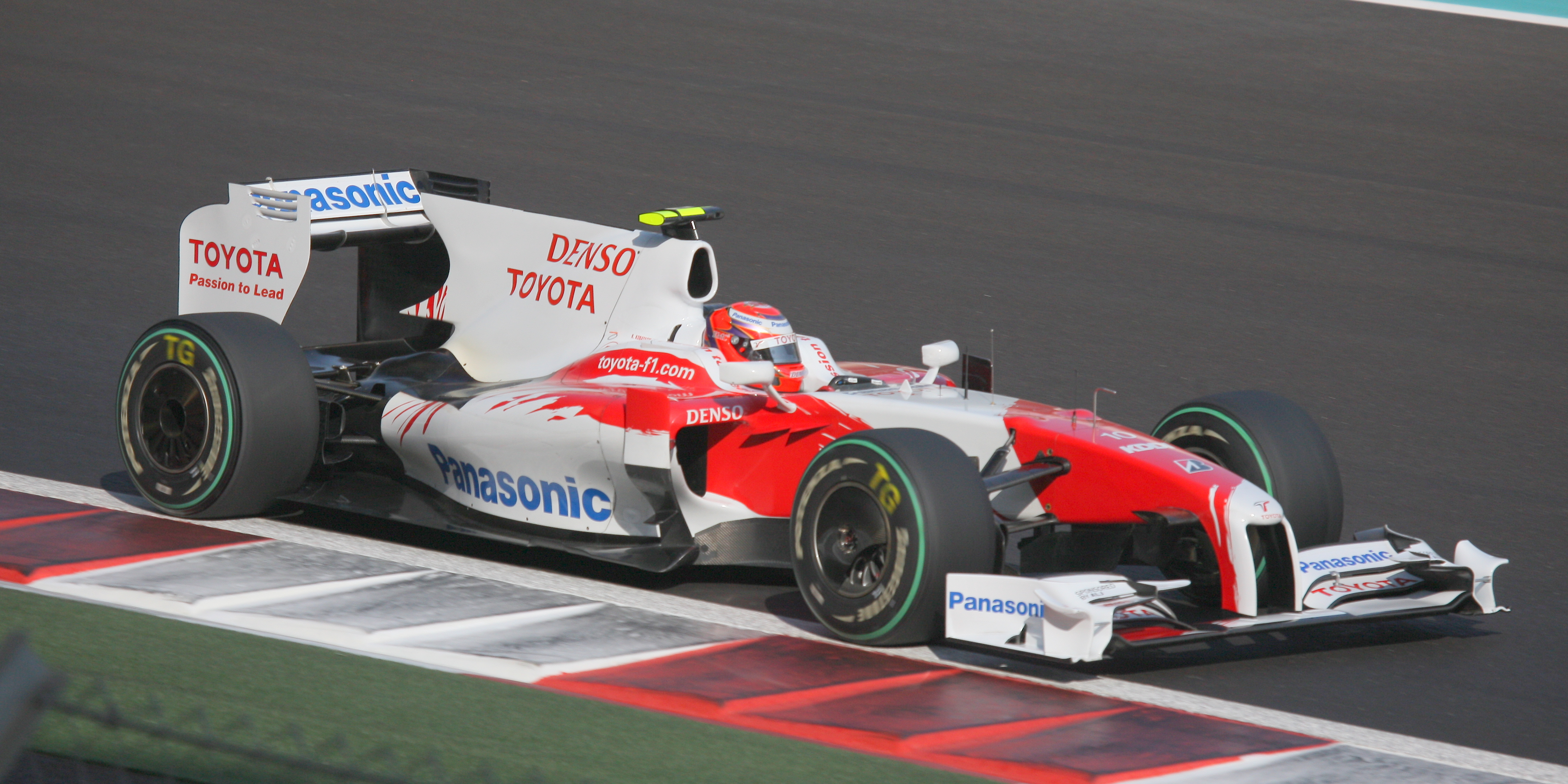 Kamui Kobayashi Toyota TF109 on Saturday at 2009 Abu Dhabi Grand Prix.